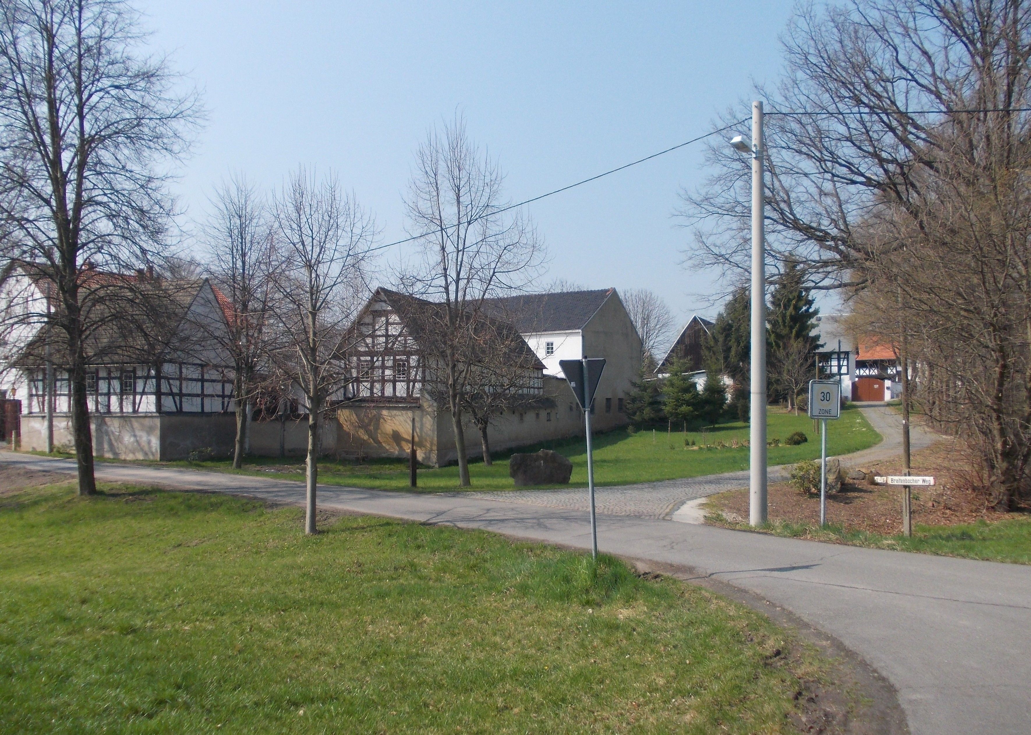 In Neukirchen (Oberwiera, zwickau district, Saxony)